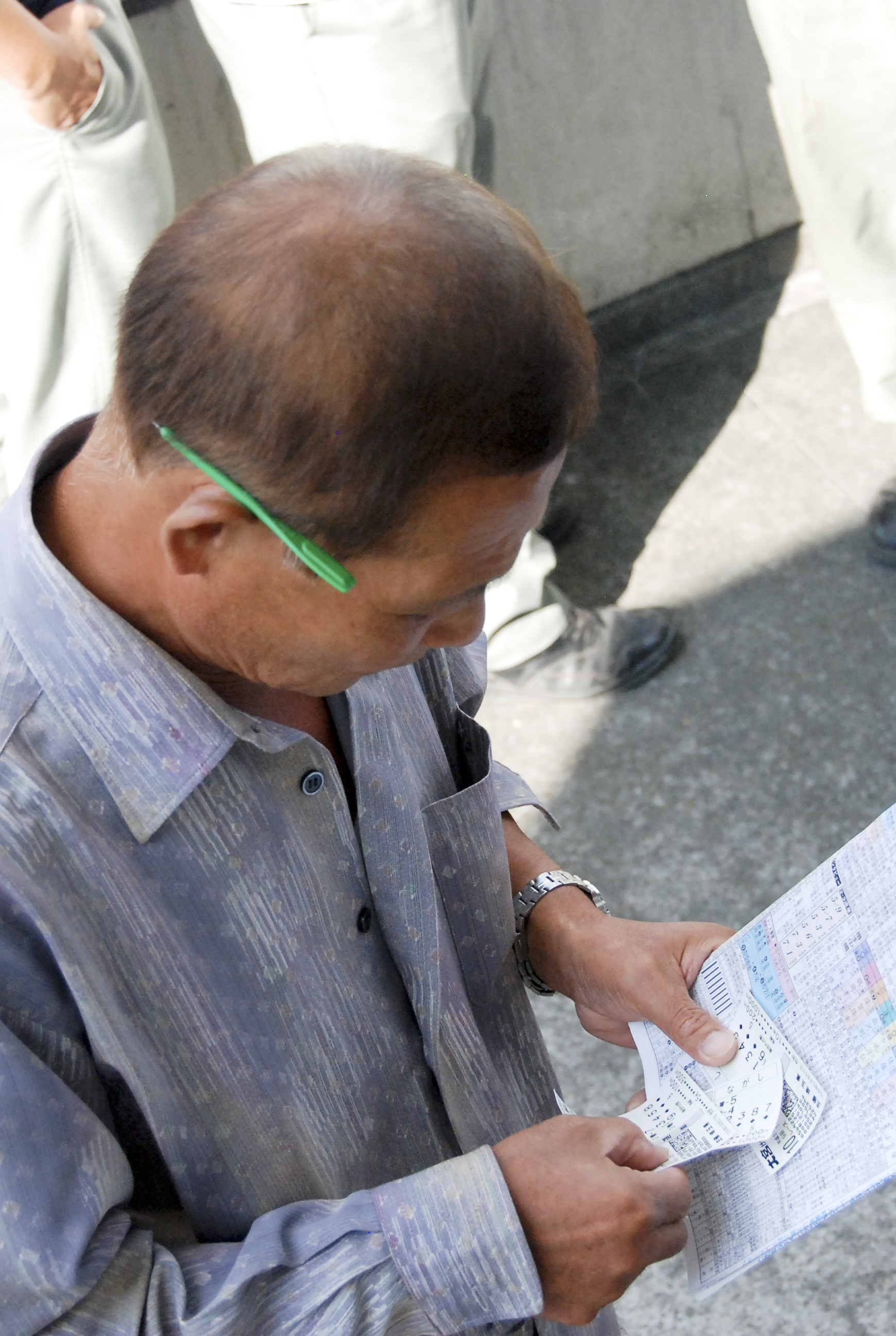 Race day on the Keirin race track in Ōmiya in in the greater Tokyo area